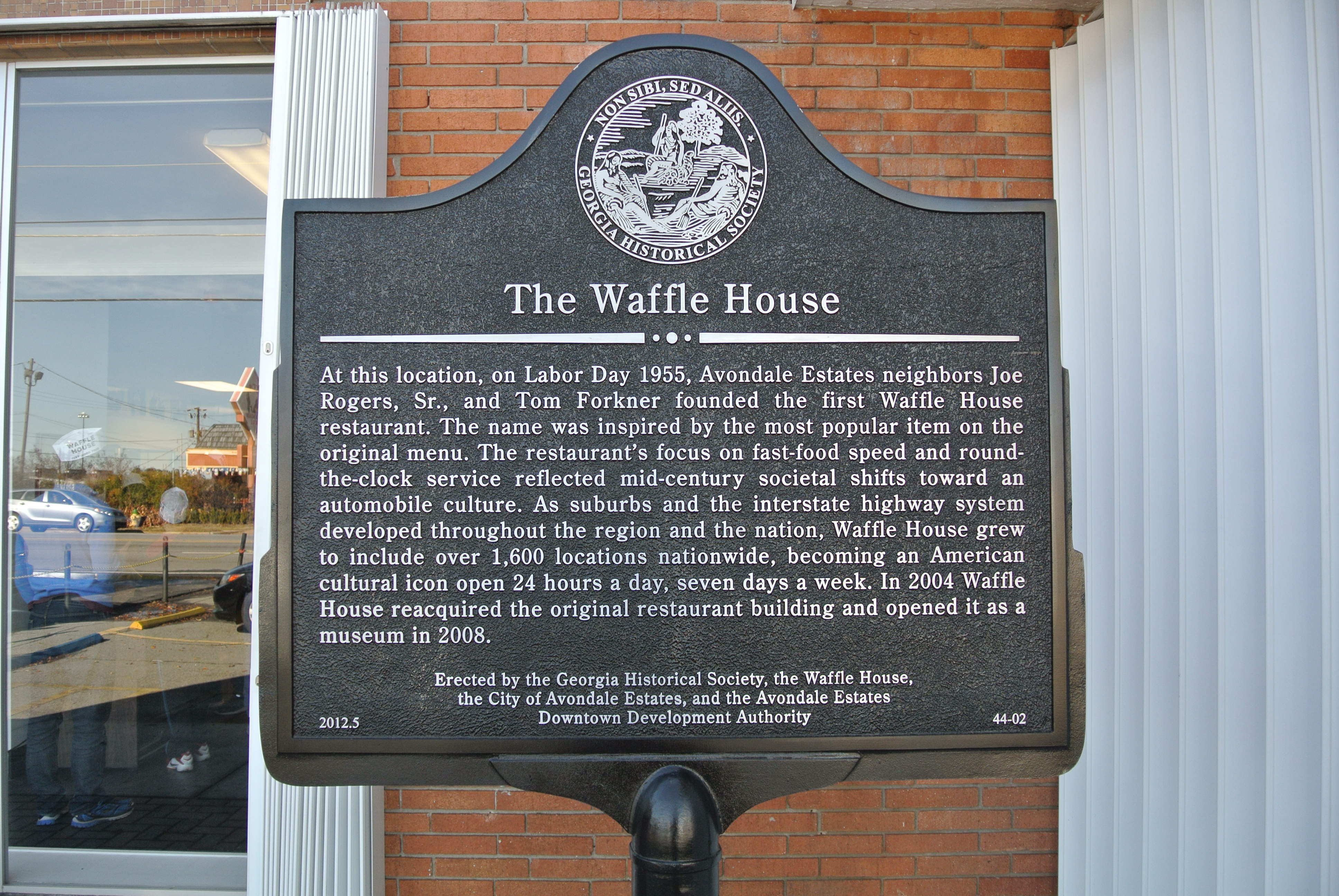 Plaque commemorating the location of the first Waffle House